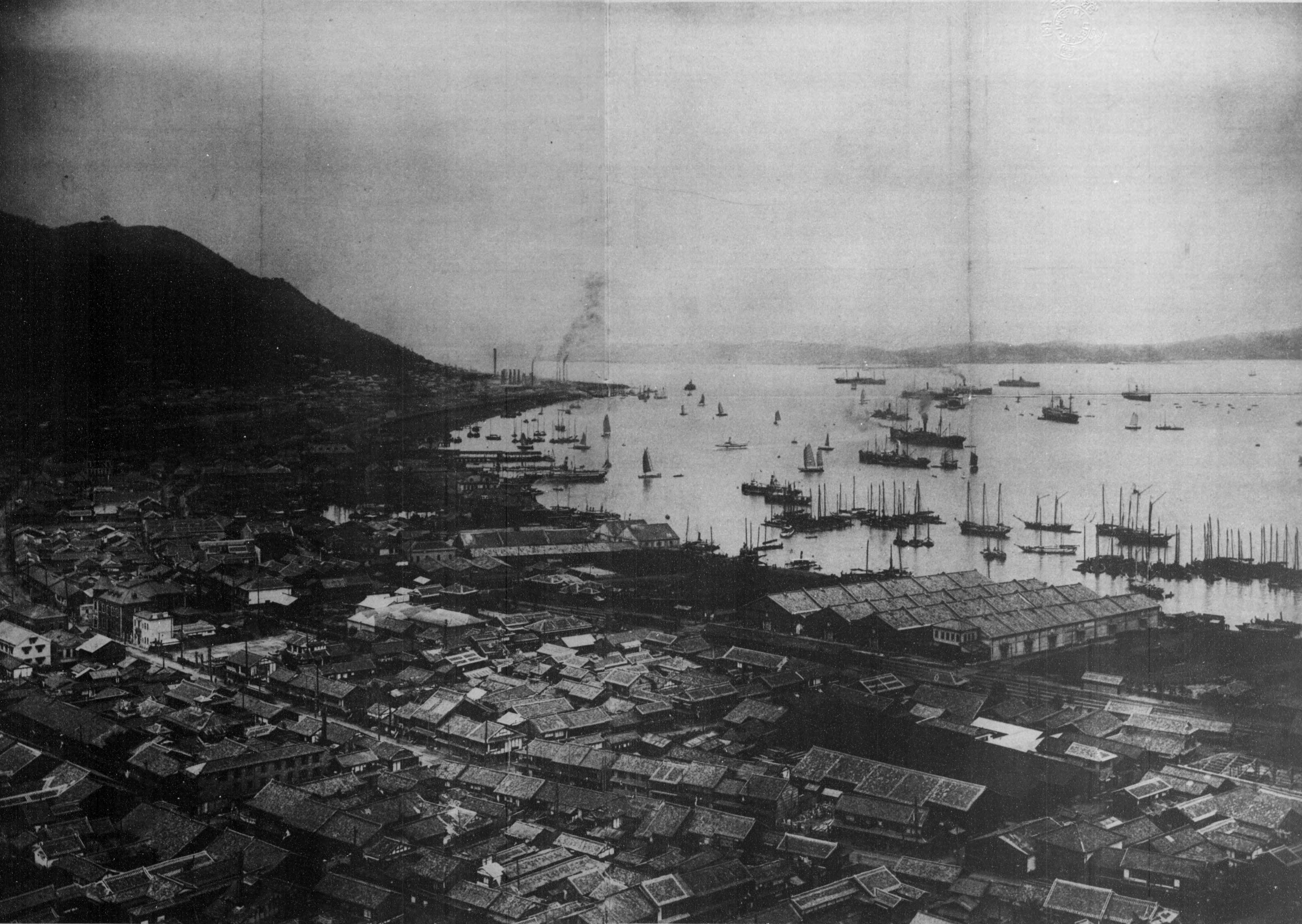 Photo of the center of Moji City (presently Mojiko area of Moji-ku, Kitakyushu City, Fukuoka Prefecture, Japan), included in a directory book by the City in 1915. Kanmon Straits in the background.